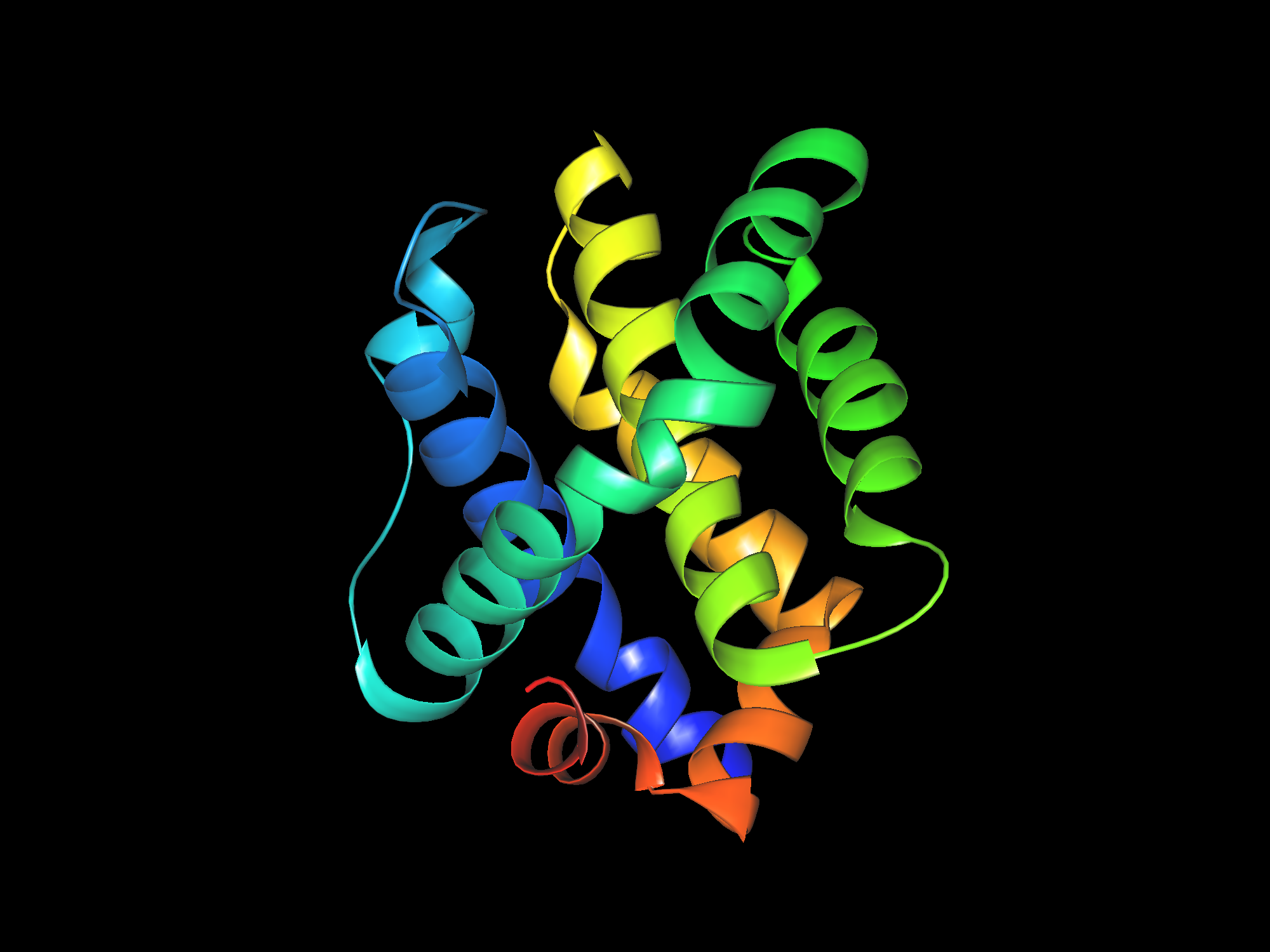 Structure of Bak protein